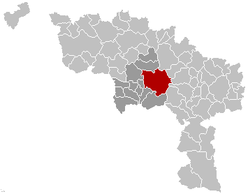 The location of Mons, Belgium